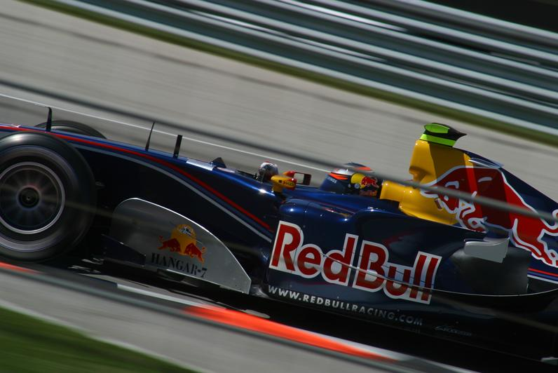 Scott Speed as Friday test driver for Red Bull Racing at the 2005 United States Grand Prix.